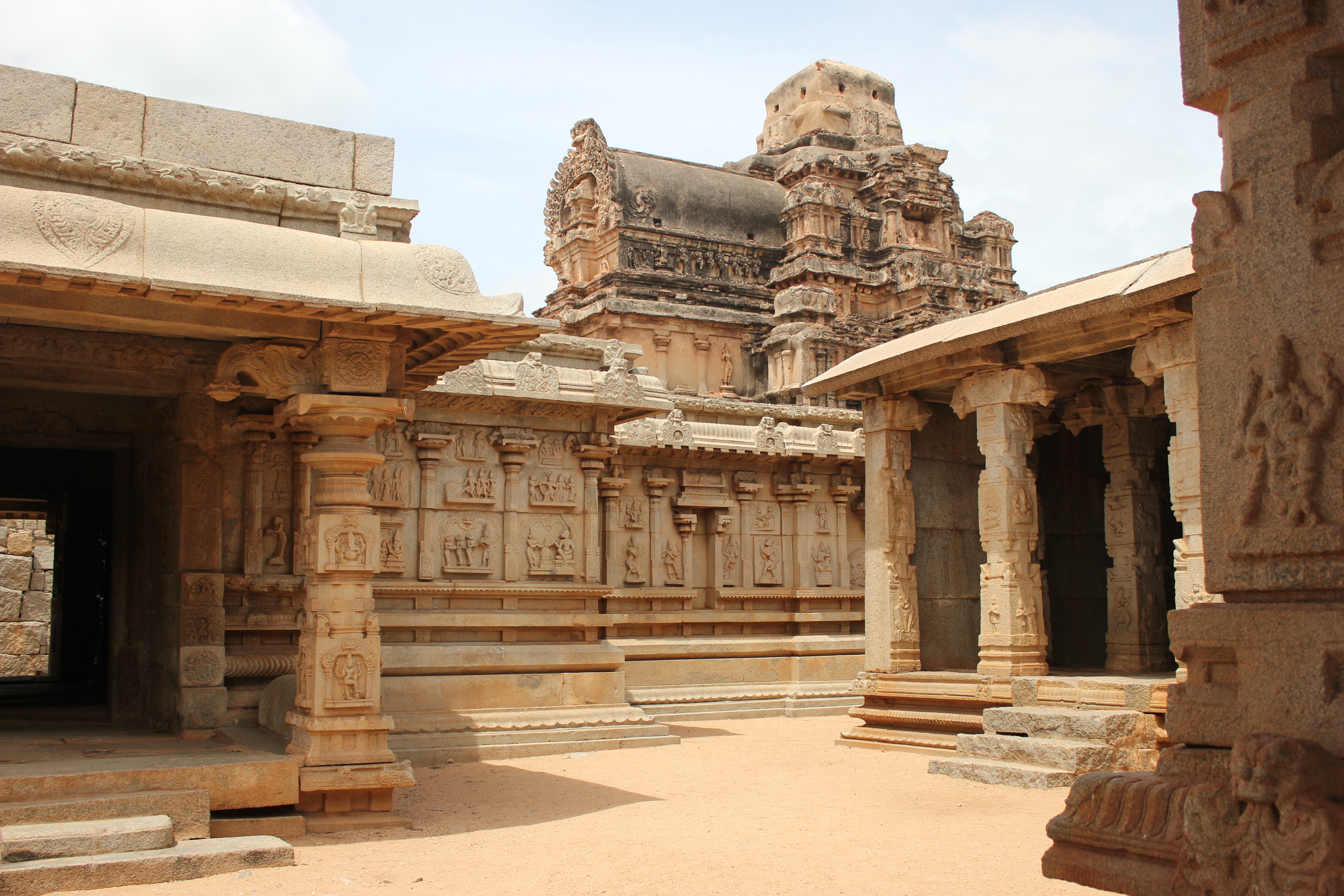 This photograph of the Hazara Rama temple was taken by me at Hampi, a UNESCO world heritage site in Bellary district, Karnataka state, India.